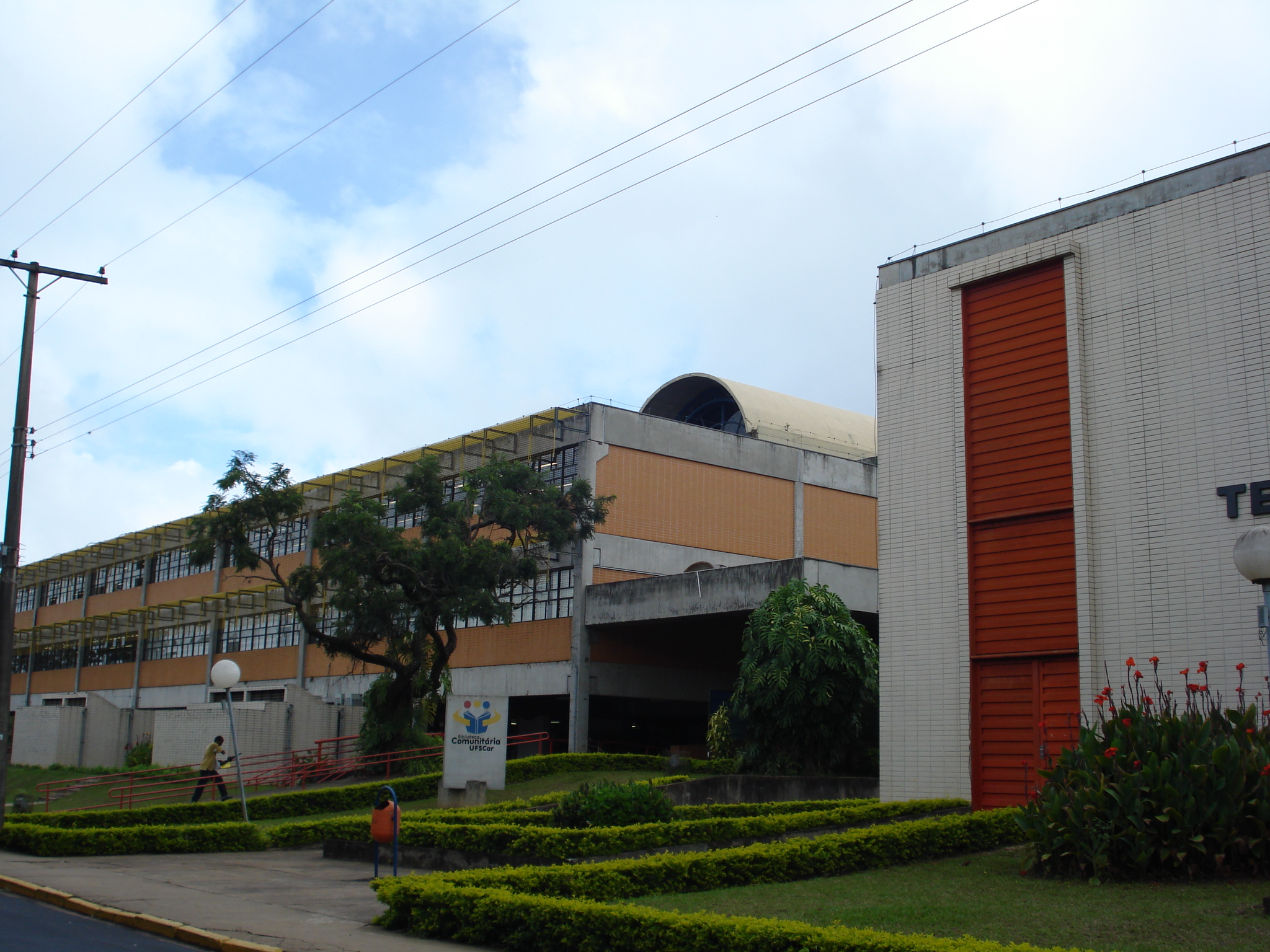 Federal University of São Carlos - UFSCar